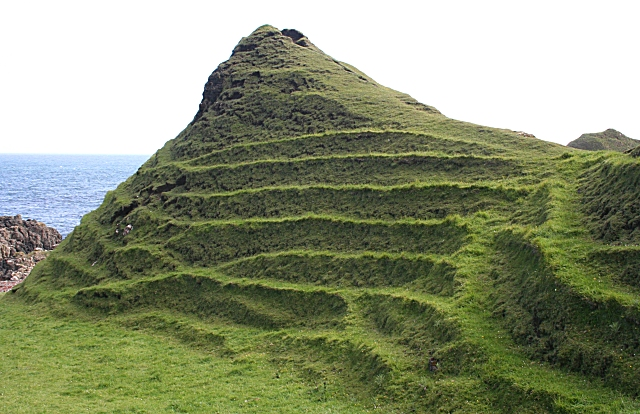 Solifluction This is a splendid example of soil creep, or solifluction. When it is frosty, the moisture in the soil freezes and the ground expands because ice expands outwards at right angles to the slope. Then, when it thaws, the soil subsides vertically, creating these little terraces on grassy slopes. Yes, I too used to think they were created by sheep!